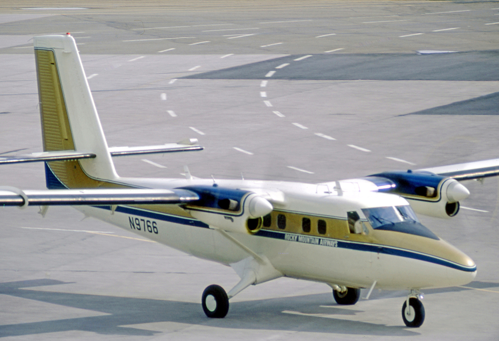 De Havilland Canada DHC-6-300 Twin Otter N9766 of Rocky Mountain Airways at Denver Stapleton Airport in 1971